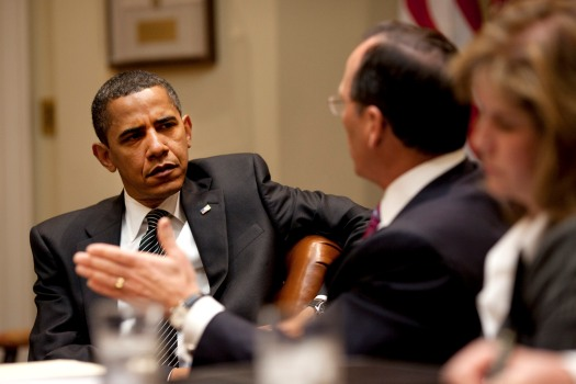 President Barack Obama listens to Safeway President and Chief Executive Officer Steve Burd during a meeting with business leaders in the Roosevelt Room of the White House to discuss employer health care costs.